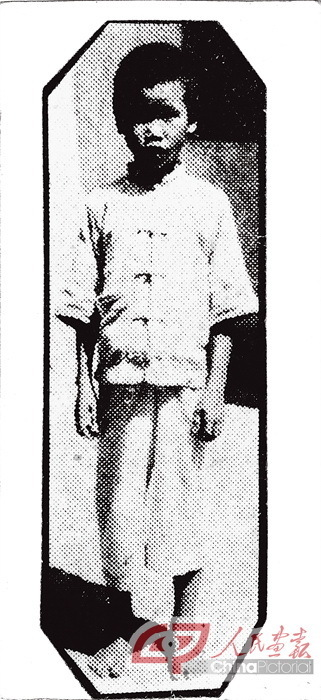 Peng Shilu was jailed at the age of 8 in 1933 only because of being the son of Peng Pai. Now he is considered "the father of China's nuclear submarine". 中文（中国大陆）: 1933年，因为彭湃遗孤的身份，彭士禄8岁时被国民党当局抓进广东潮安县监狱。而现在他被誉为“中国核潜艇之父”。